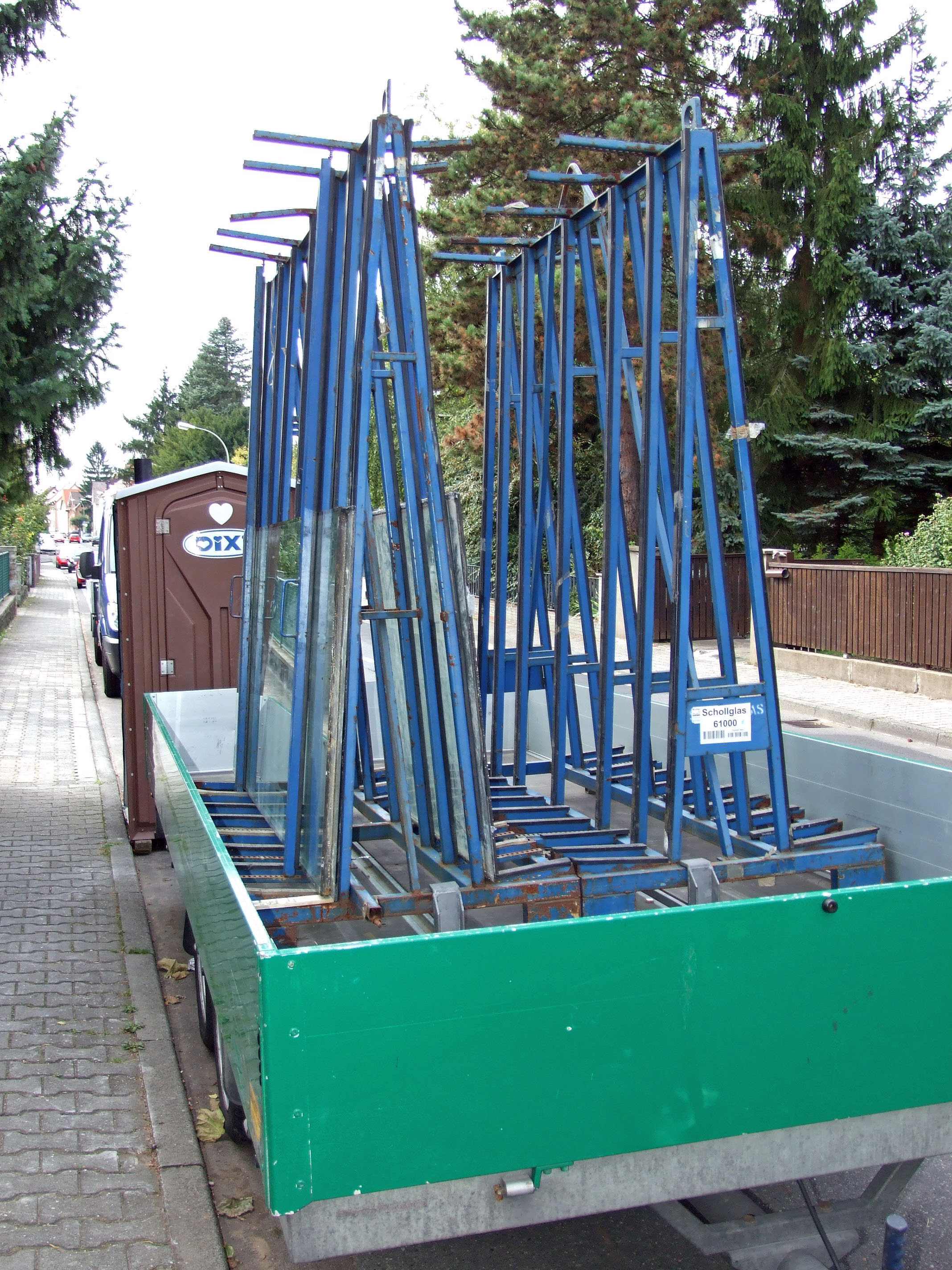 pane rack on a trailer